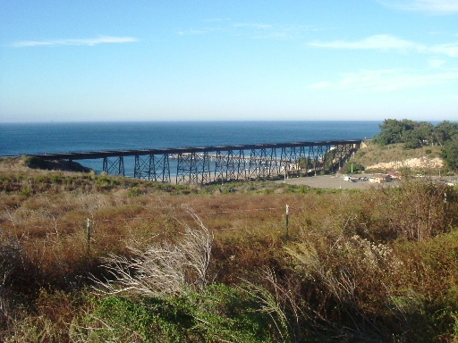 Another image of Gaviota Trestle.